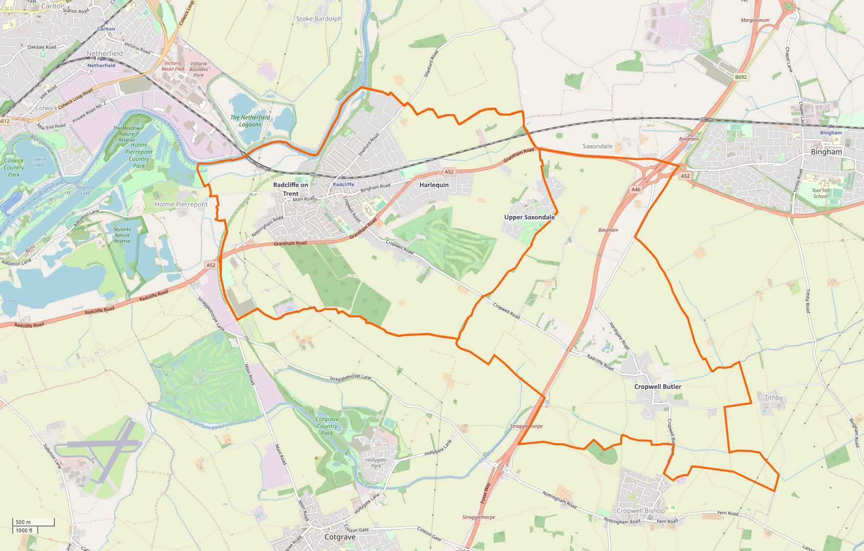 Map of Radcliffe on Trent and Cropwell Butler parish boundaries, Nottinghamshire, UK, emphasising local areas as well as further afield